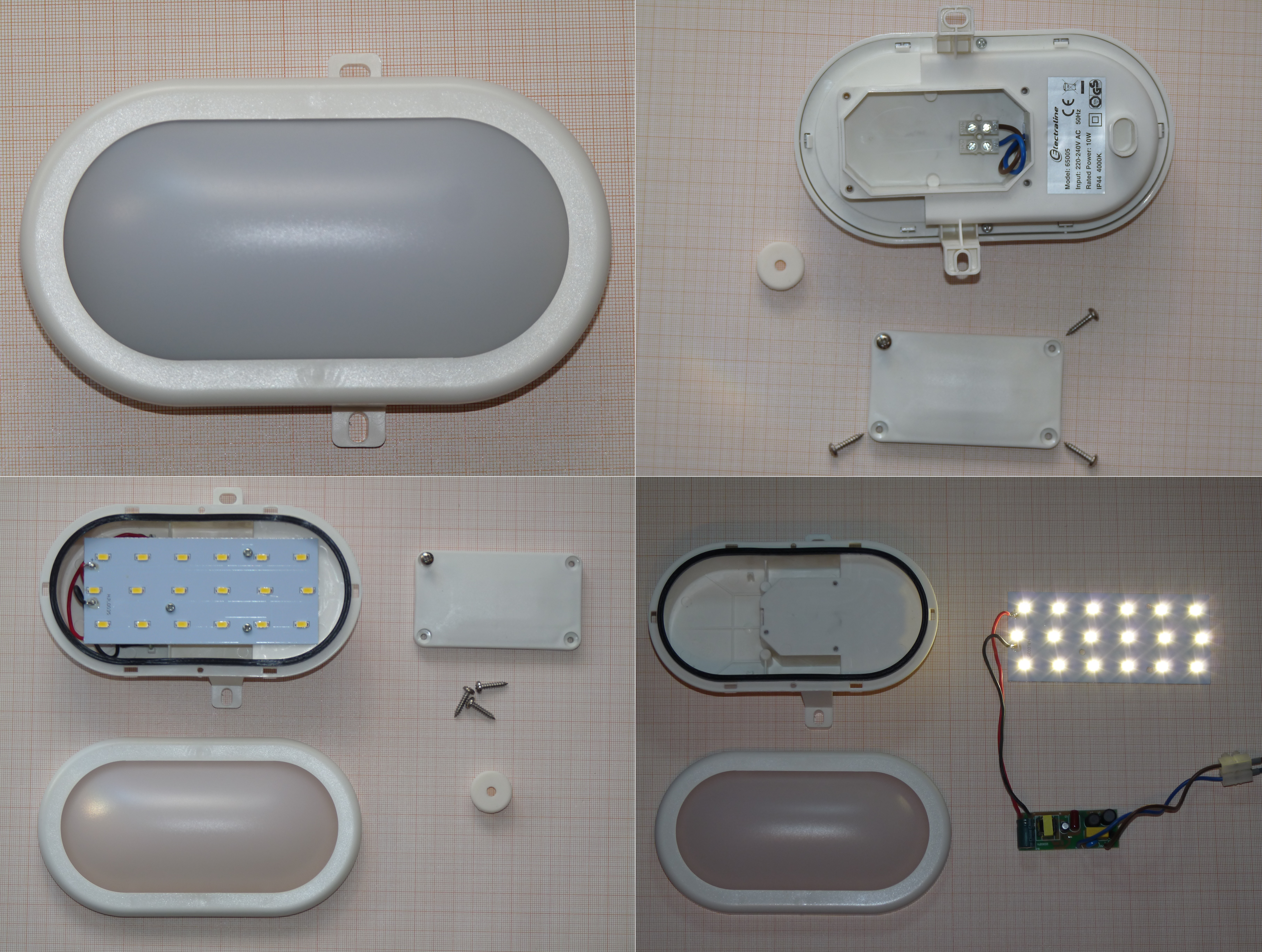 LED lamp